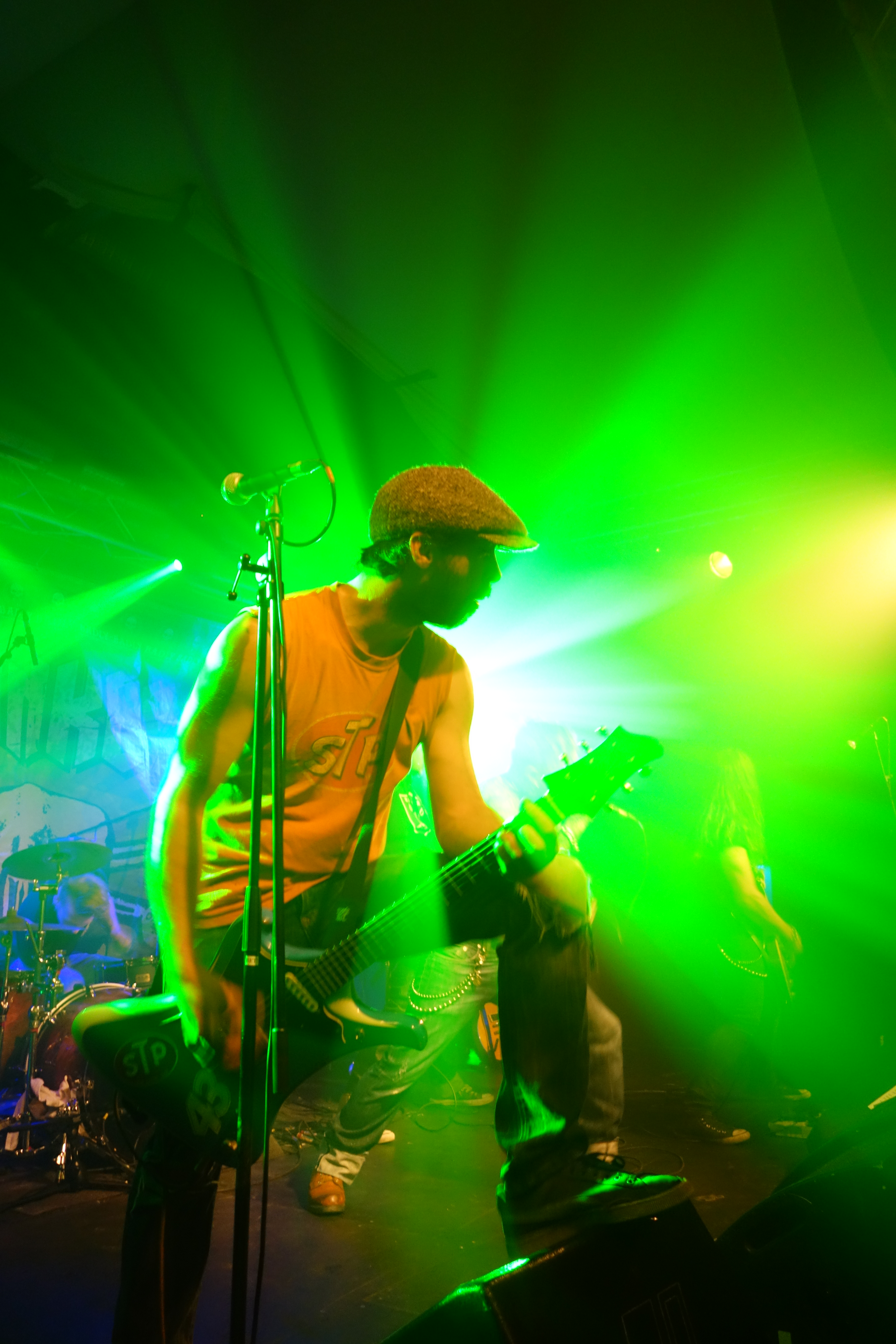 Wally of V8 Wankers live at "Das Bett" Frankfurt 09th December 2016